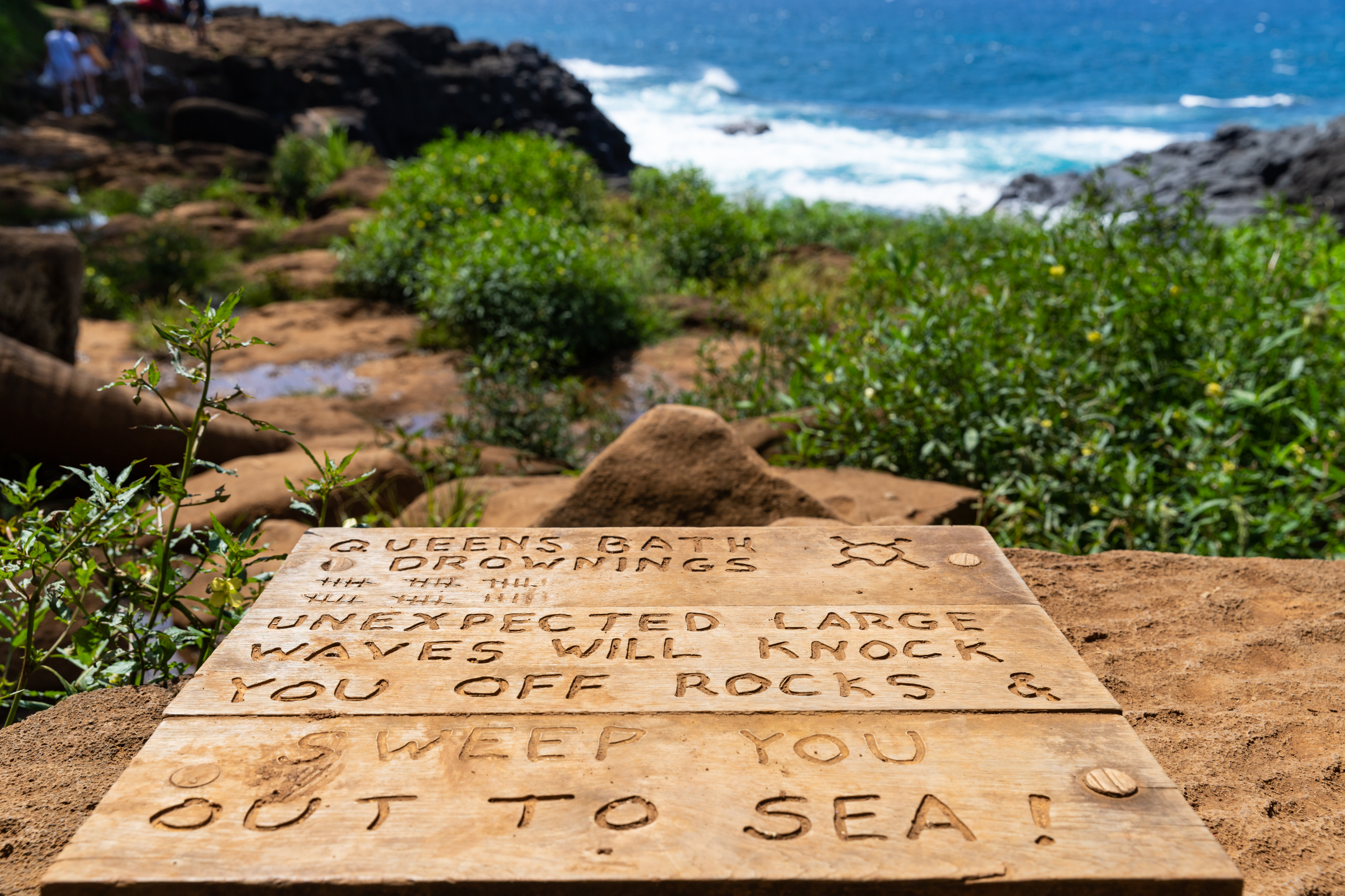 Queen's Bath dead pool Kauai Hawaii